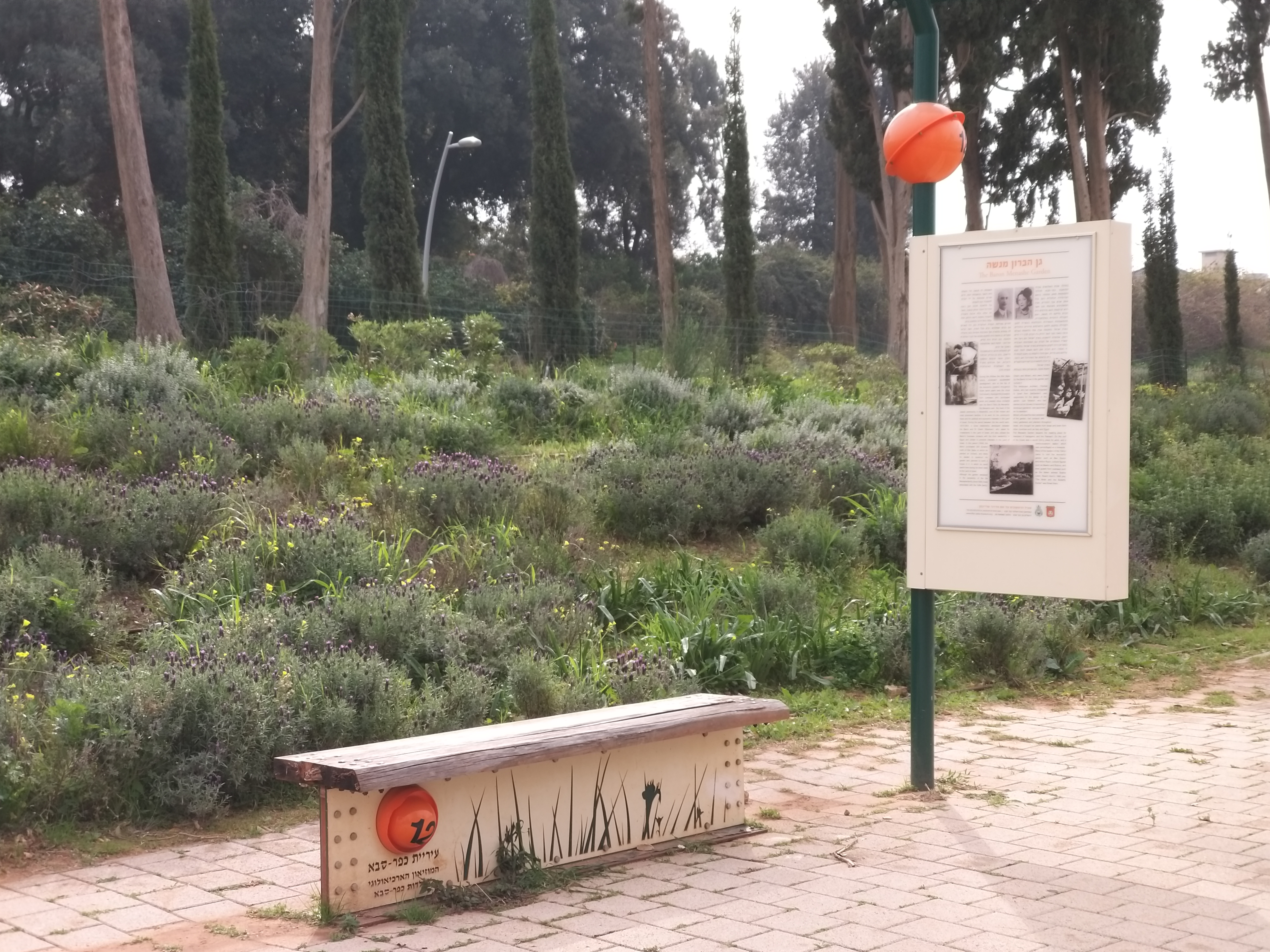 The Founders' Trail, Kfar Saba: the sign and bench at site #12 - the garden of Baron Felix de Manshe